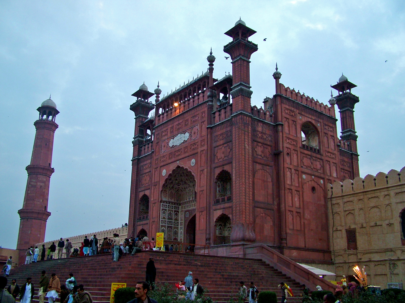 The main entrance of Badshahi Mosque in Lahore. The mosque was built in 1673 by the Mughal Emperor Aurangzeb